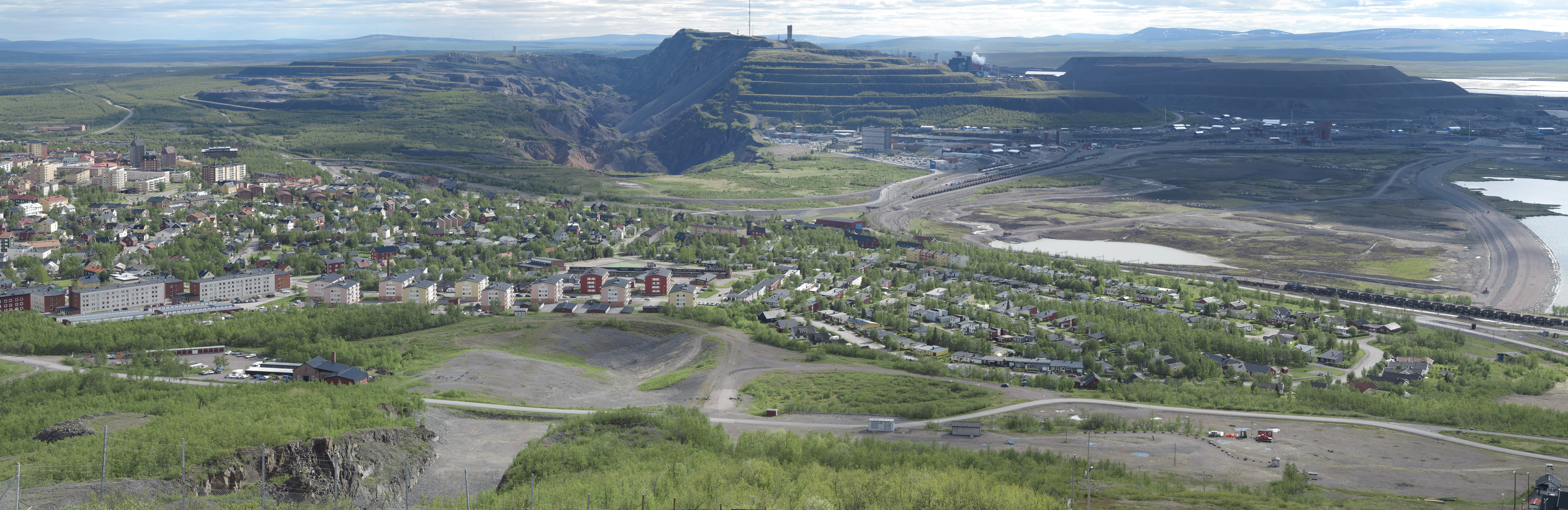 Kiruna city panorama, taken from Luossavaara